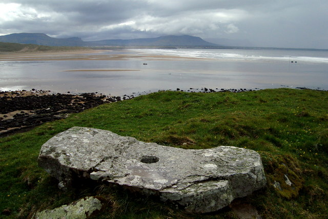 Stone with Hole at Kildoney This ancient and unusual stone rests on a hill summit overlooking the estuary where the river Erne meets the Atlantic. It has just stopped raining and a small fishing boat works the shallows of the bay.